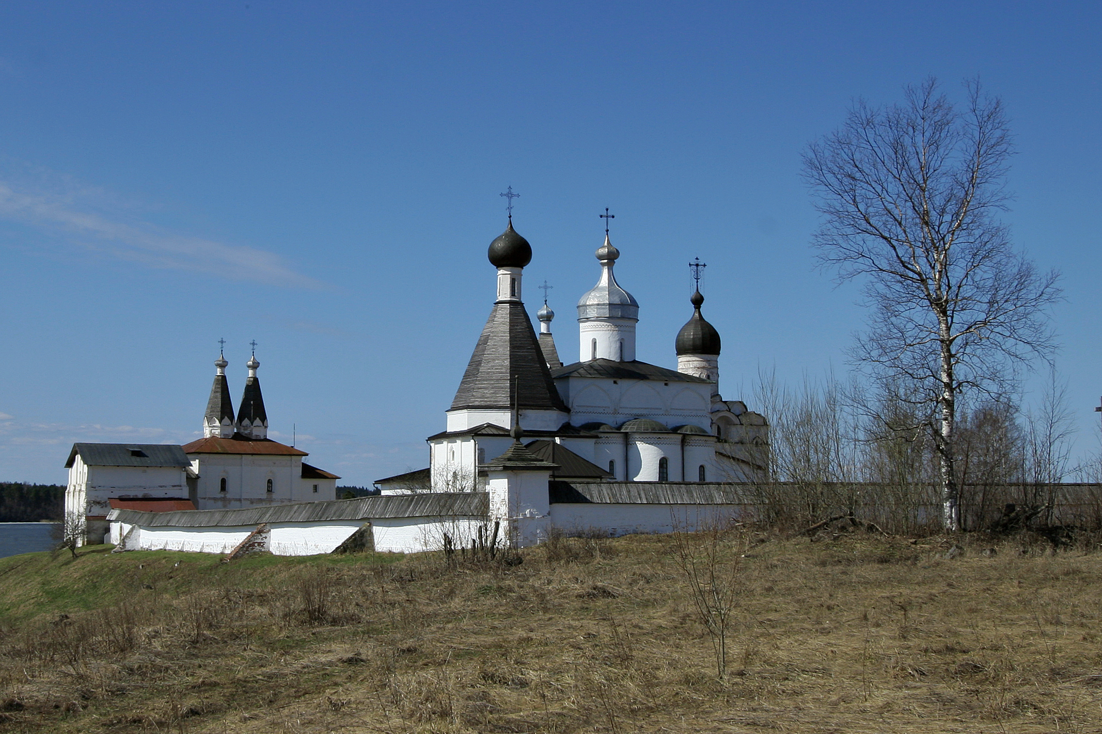 Ferapontov Monastery in Russia